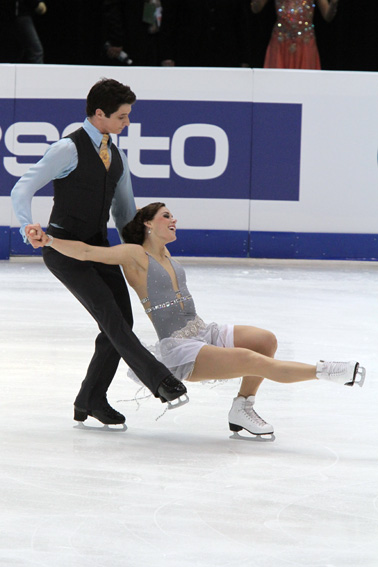 Tessa Virtue and Scott Moir at the 2011 Four Continents Championships.